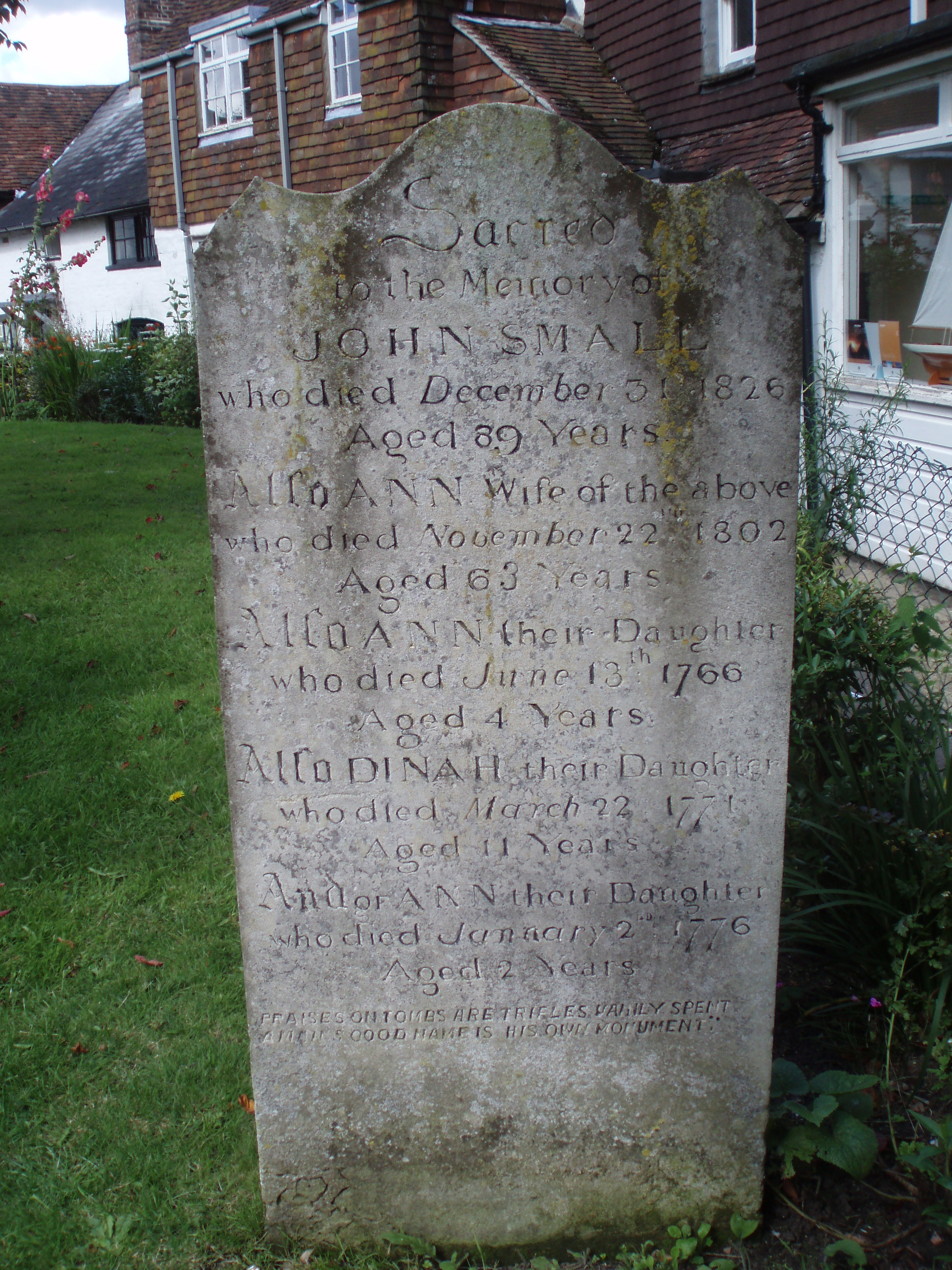 Photo taken 30th July 2007